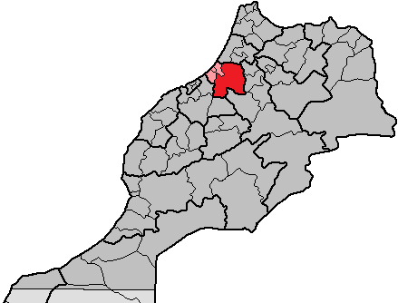 Location of the province Khémisset within the region Rabat-Salé-Zemmour-Zaër, Morocco. In total, Morocco has 16 regions, subdivided into 62 provinces and 13 prefectures.